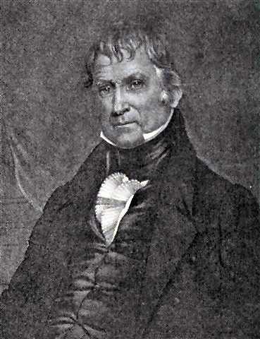 Nahum Mitchell, US Representative from Massachusetts